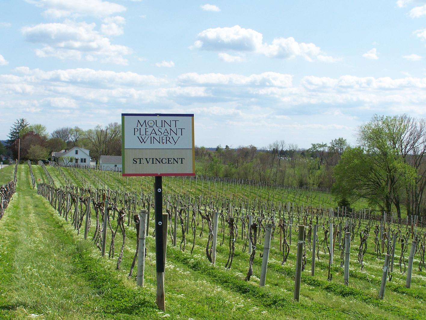 St. Vincent vines from Mount Pleasant Winery in Augusta Missouri. Taken with a Kodak z650 April 28th, 2007